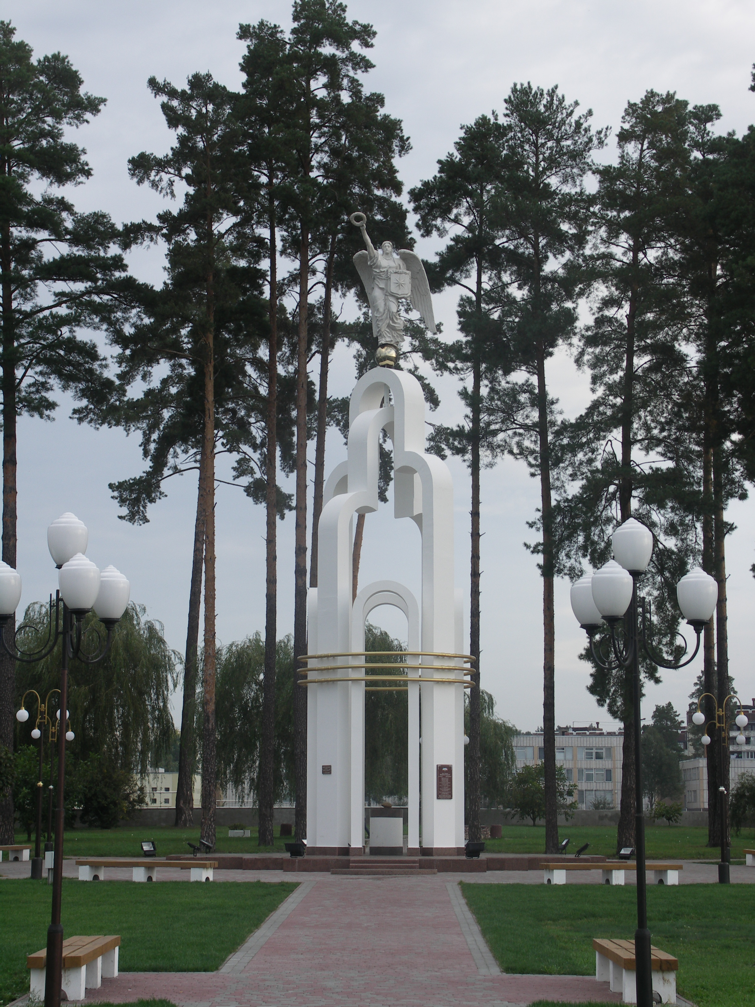 Monument Angel of Slavutych on the central square of the city.